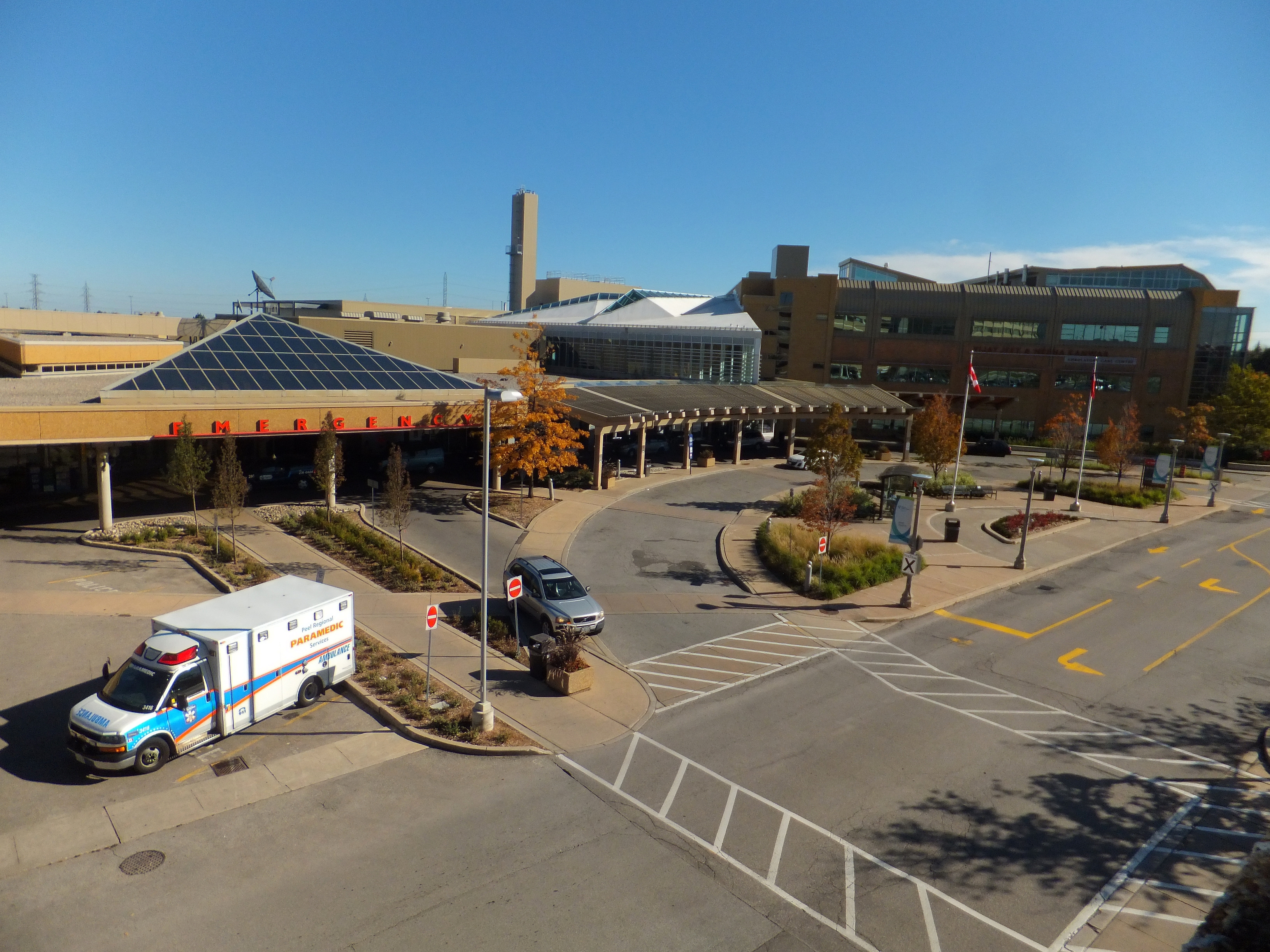 Main hospital entrance, including Emergency access.